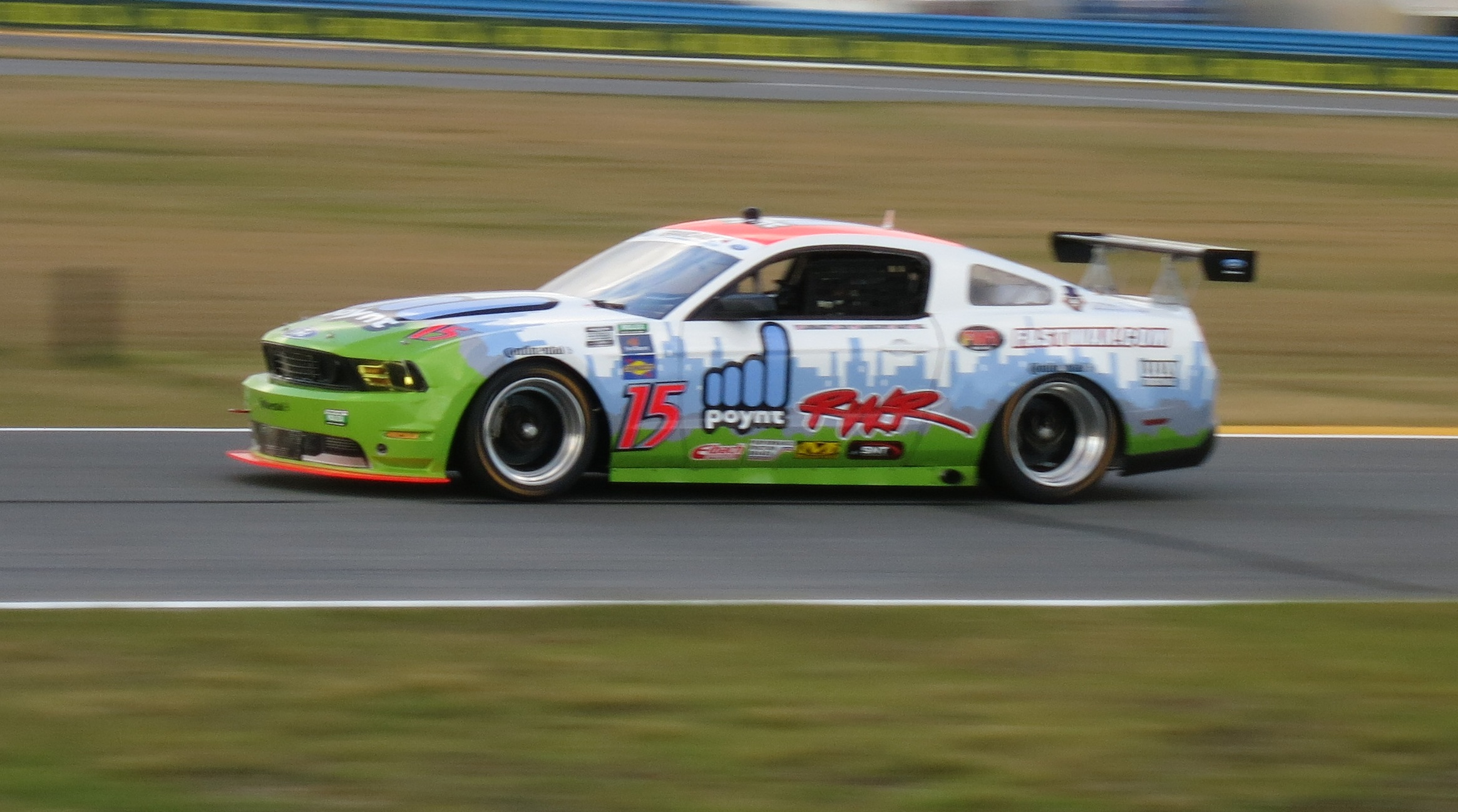 Rick Ware Racing's No. 15 Ford during practice for the 2012 24 Hours of Daytona endurance race at Daytona International Speedway.